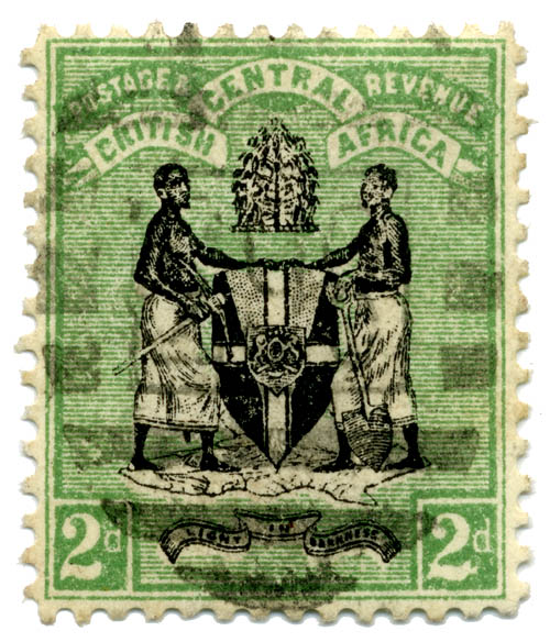 Scan of British Central Africa 2p stamp of 1896